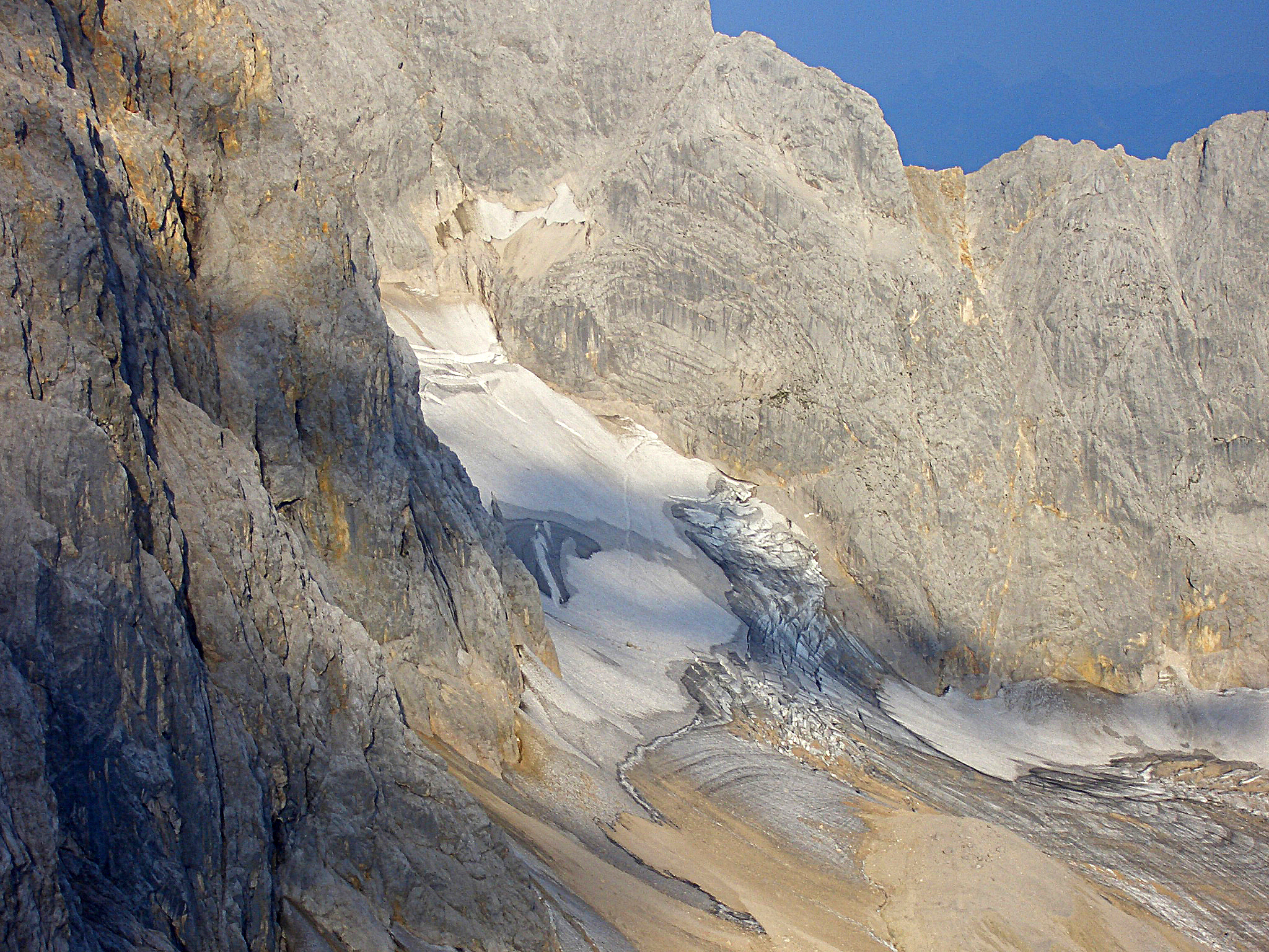 Höllentalferner of the Zugspitze from E (from Jubiläumsgrat between Innerer and Mittlerer Höllentalspitze)